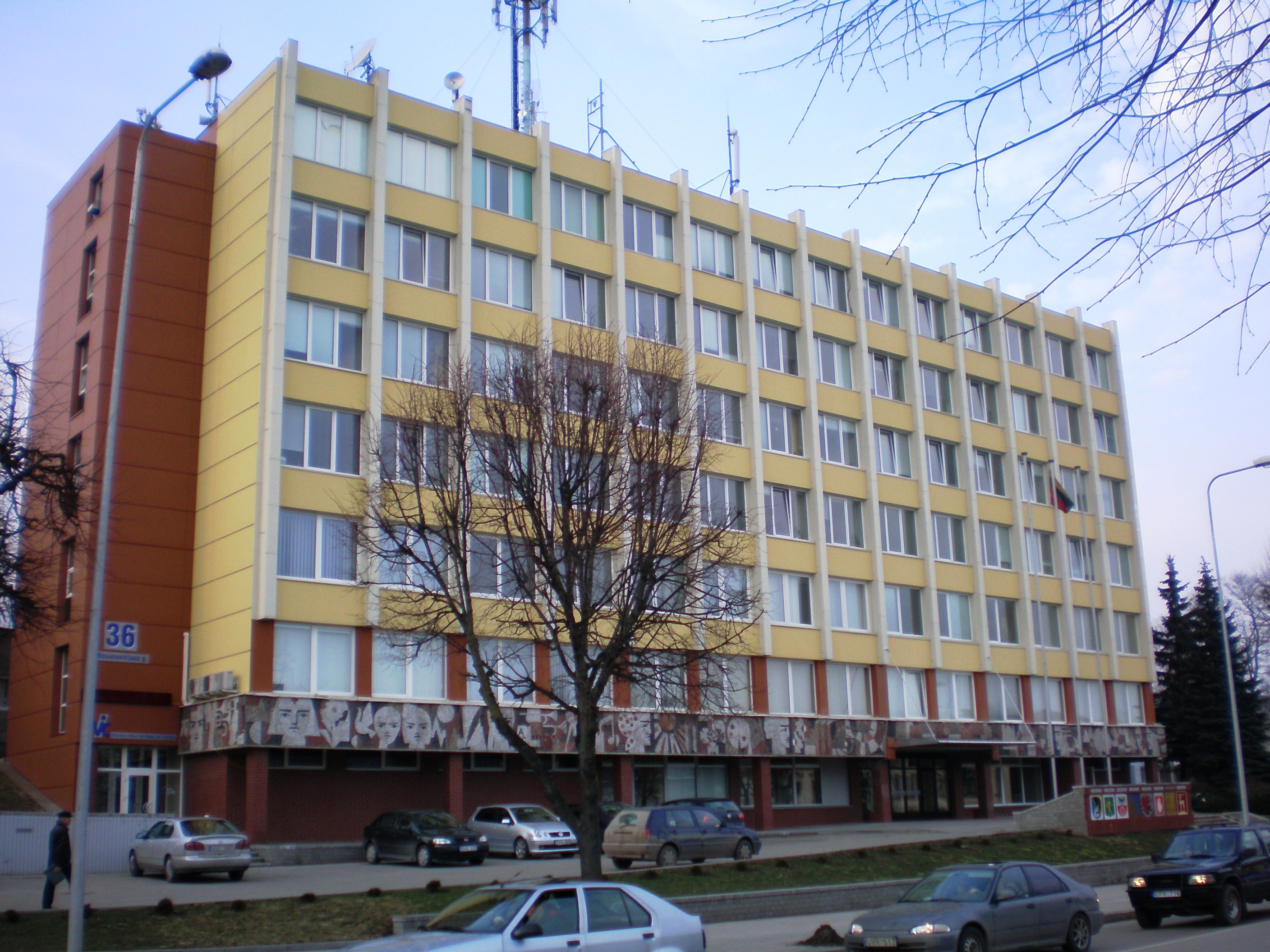 Kėdainiai city municipality